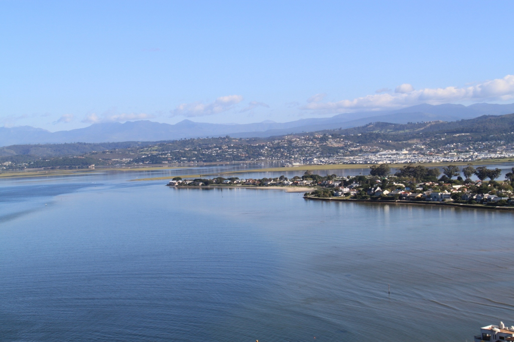 View of Knysna with Leisure Isle in the foreground